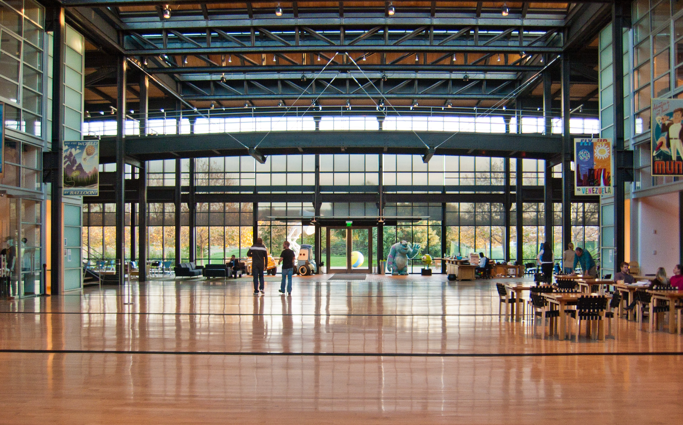 Pixar Animation Studios atrium.